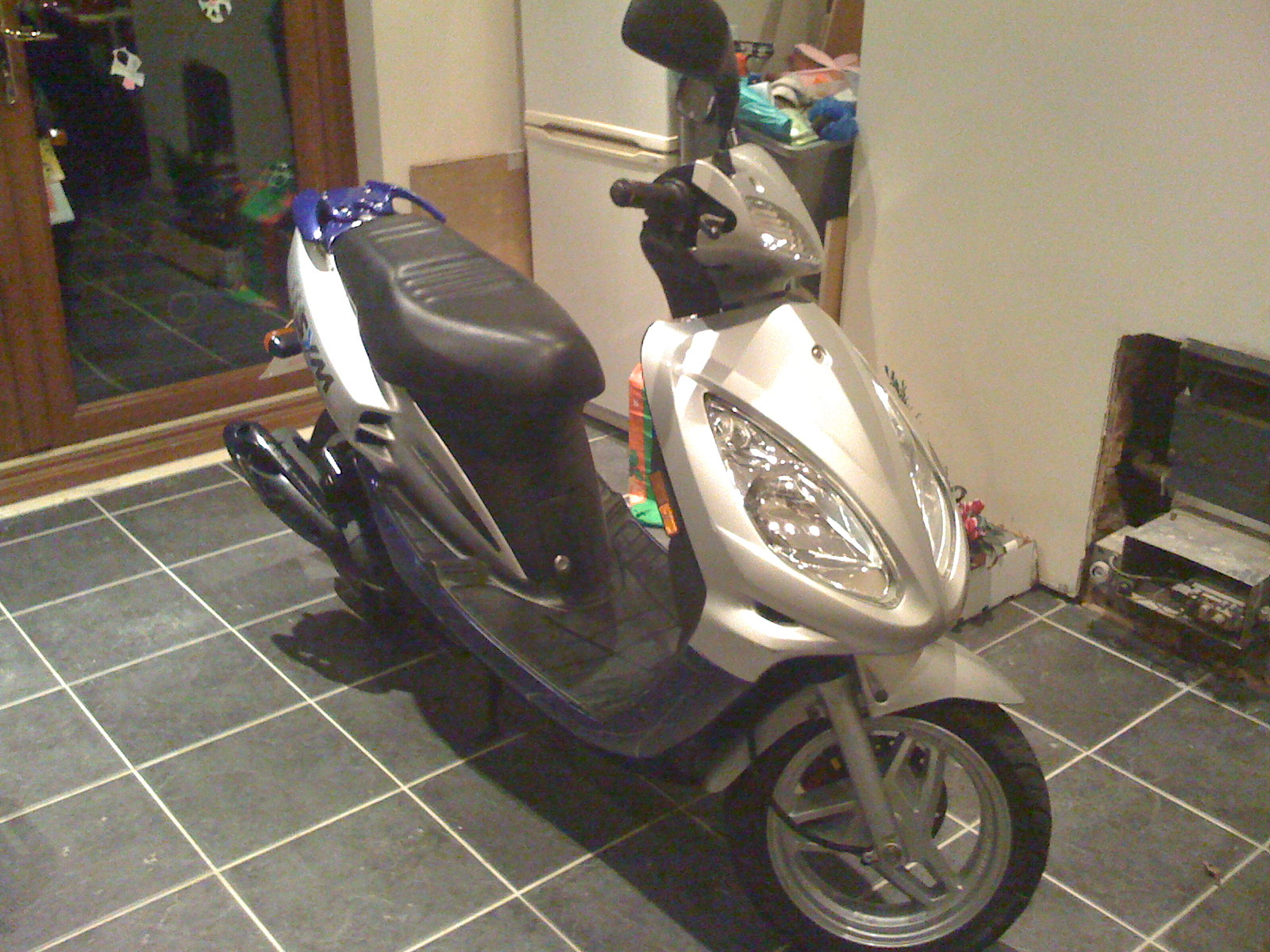 Front view of the Sym Jet Euro X 50.